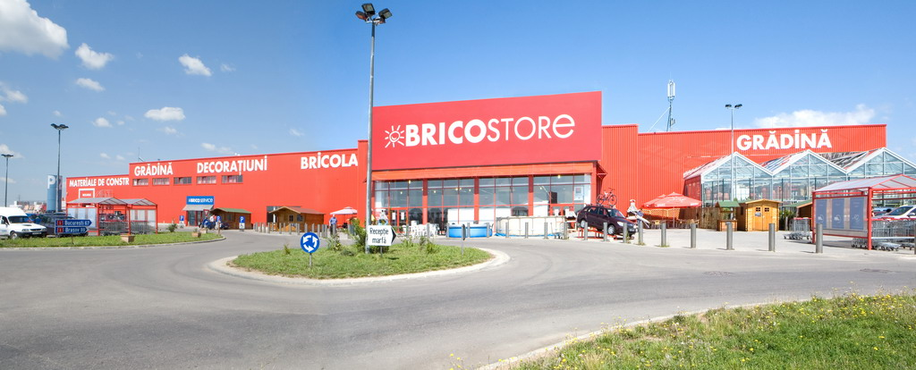 Bricostore Mall in Ploiești, RomaniaRomână: Bricostore în Ploieşti, Romania